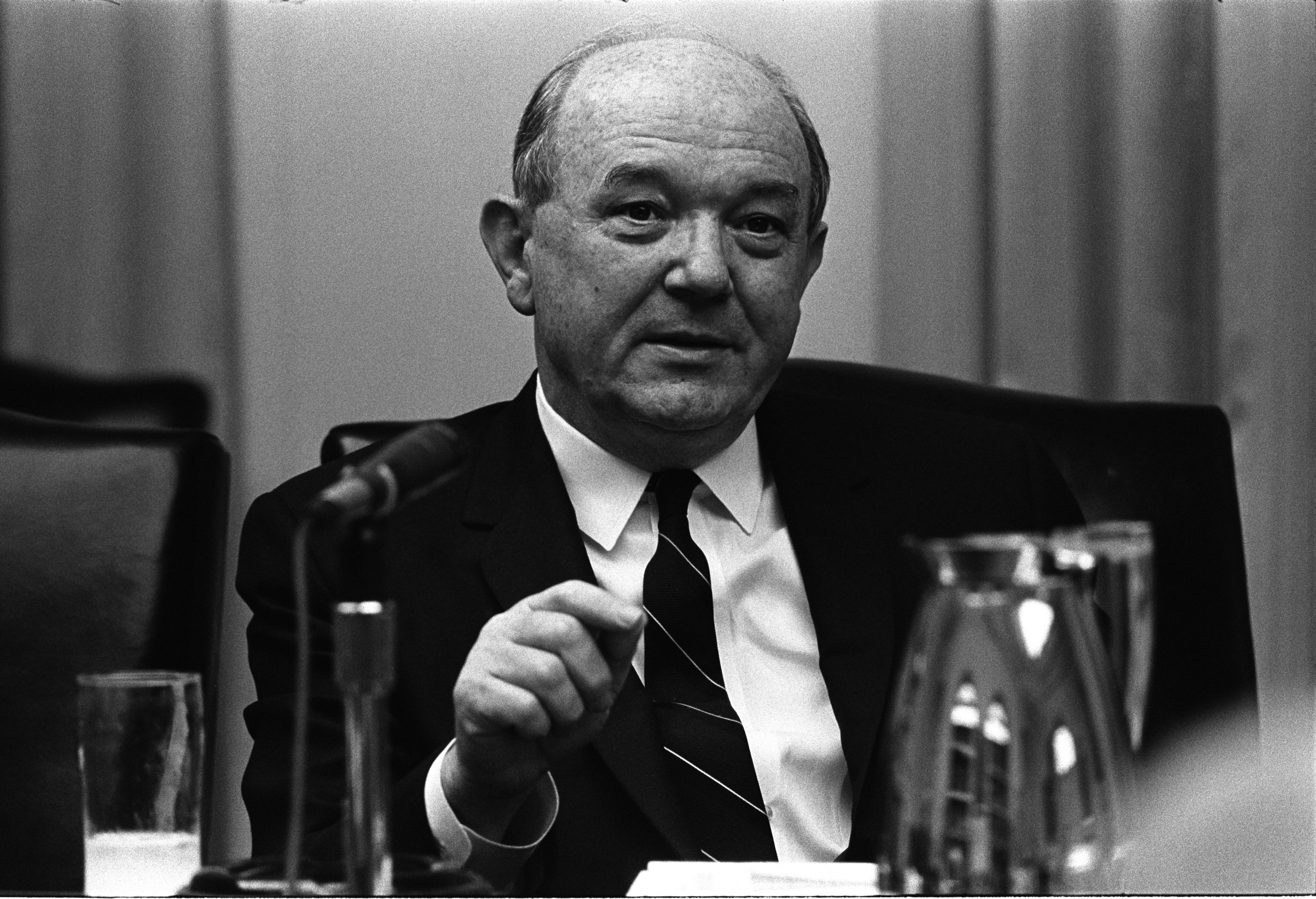 Secretary of State Dean Rusk at a Cabinet Meeting